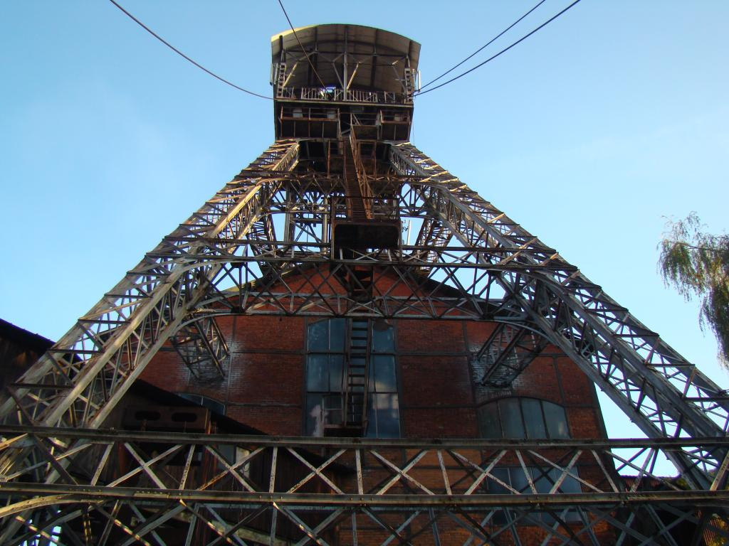 Coal mine "Michal" in Ostrava, Czech republic